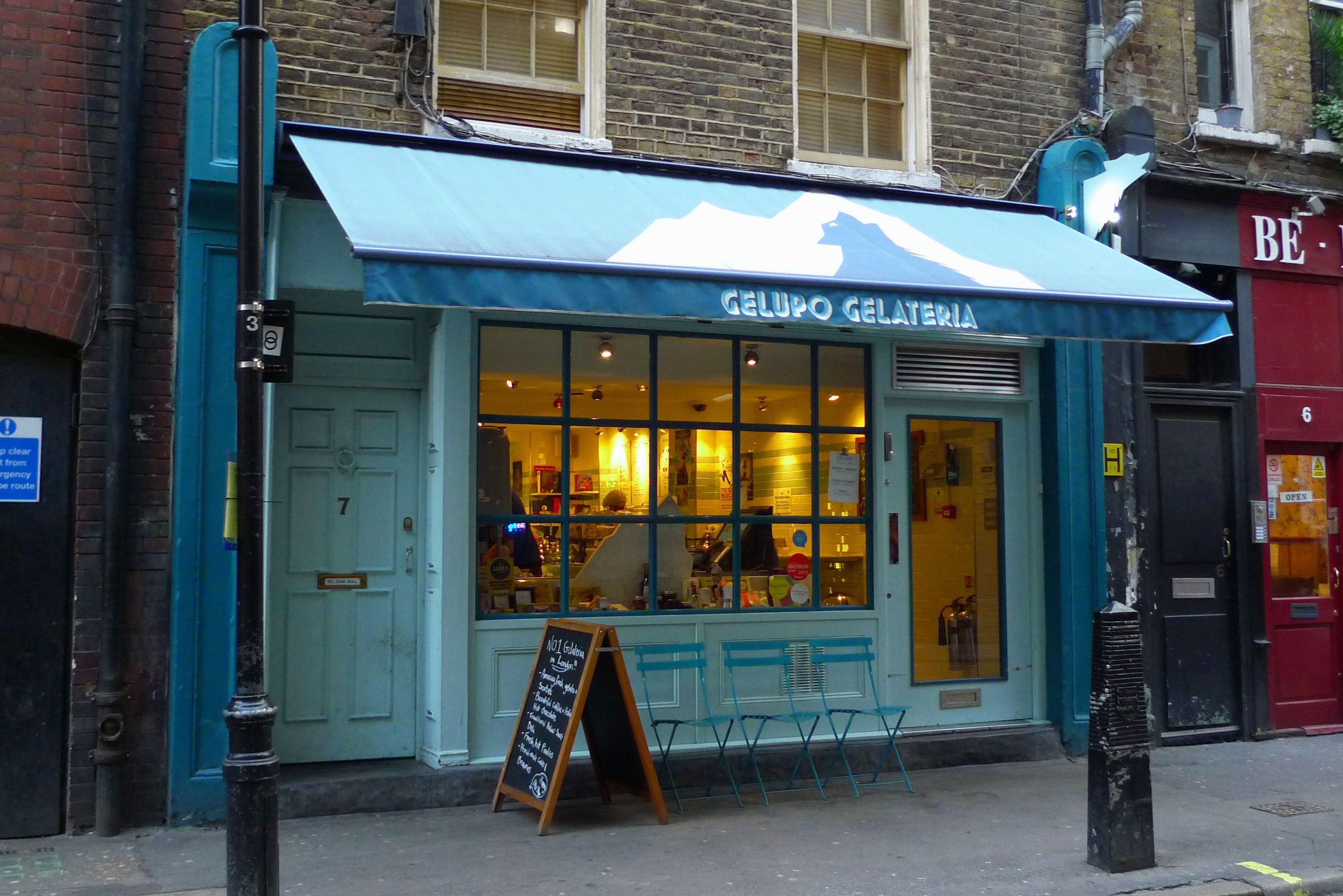 Gelupo Gelateria, a business venture from the people behind Bocca di Lupo restaurant (situated opposite)